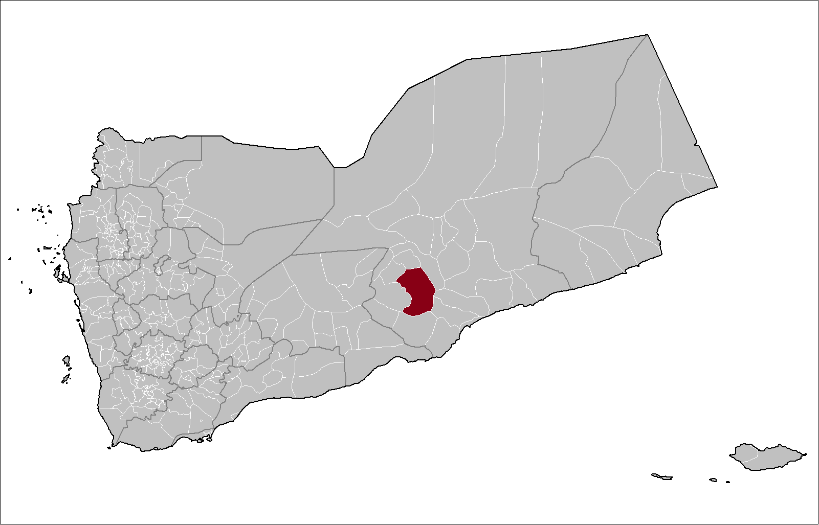 District locator of Daw'an District in Hadhramaut Governorate, Yemen.